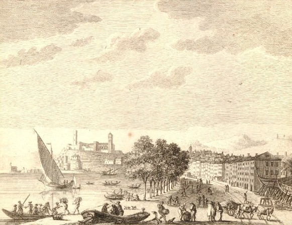 Cannes : View of the seafront, line of trees, boats, and a church on the hill in the background, etching (proof before lettering), by the French poet and engraver Charles Michel Campion. 178 mm x 202 mm. Courtesy of the British Museum, London (crooped).